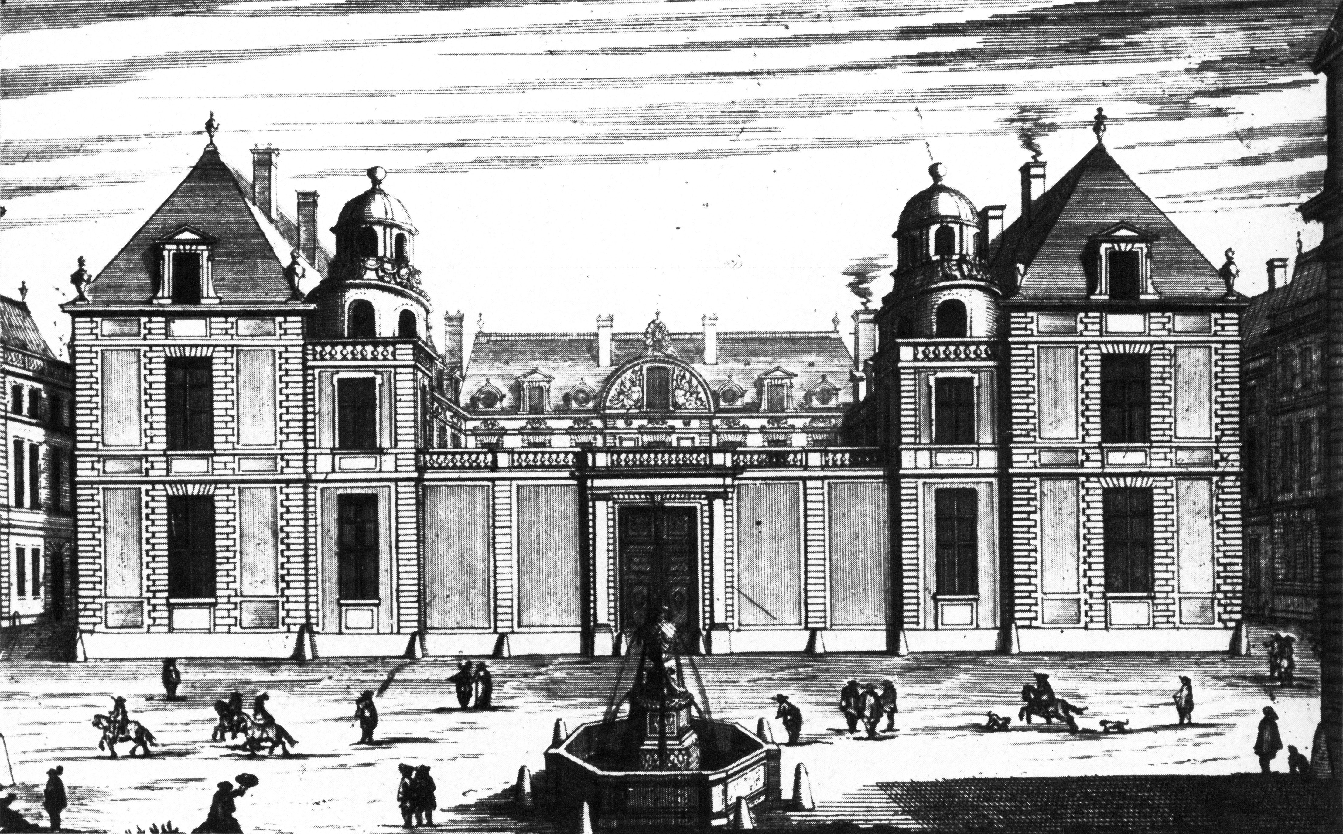 View of the street facade of the Hôtel Tubeuf on the rue des Petits-Champs in Paris, incorporated into the Palais Mazarin and now part of the Richelieu site of the Bibliothèque nationale de France